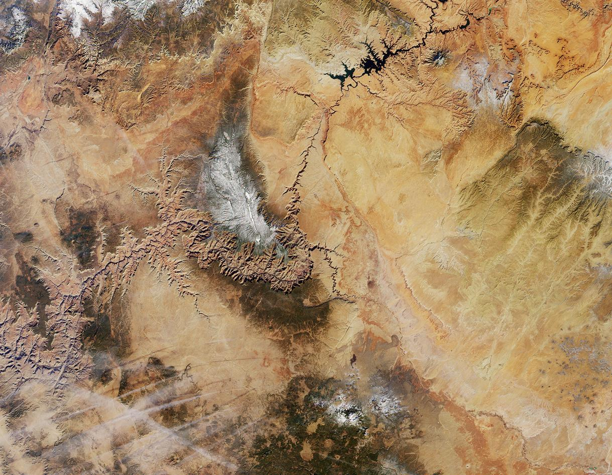 A satellite image of the Grand Canyon. Northern Arizona and the Grand Canyon are captured in this pair of Multi-angle Imaging Spectroradiometer (MISR) images from December 31, 2000. The above image is a true color view from the nadir (vertical) camera. A stereo composite image was generated using data from MISR's vertical and 46-degree-forward cameras. Viewing the stereo image in 3-D requires the use of red/blue glasses with the red filter placed over your left eye. To facilitate stereo viewing, the images have been oriented with north at the left. In addition to the Grand Canyon itself, which is visible in the western (lower) half of the images, other landmarks include Lake Powell, on the left, and Humphreys Peak and Sunset Crater National Monument on the right. Meteor Crater appears as a small dark depression with a brighter rim, and is just visible along the upper right-hand edge. Can you find it? (NOTE: The image in this wiki has been rotated relative to the one on the NASA site, so the preceding description's references to "left", etc., are incorrect.)